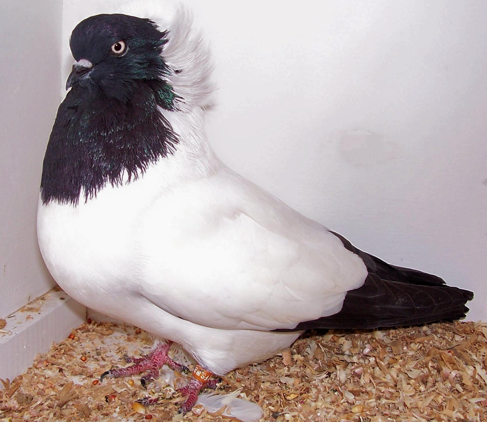 Champion Nun pigeon at Queensland (Australia) State Show. This pigeon is owned by Barry Ross.